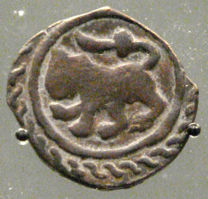 Mamluk_Shaban_II_copper_fals_Hama